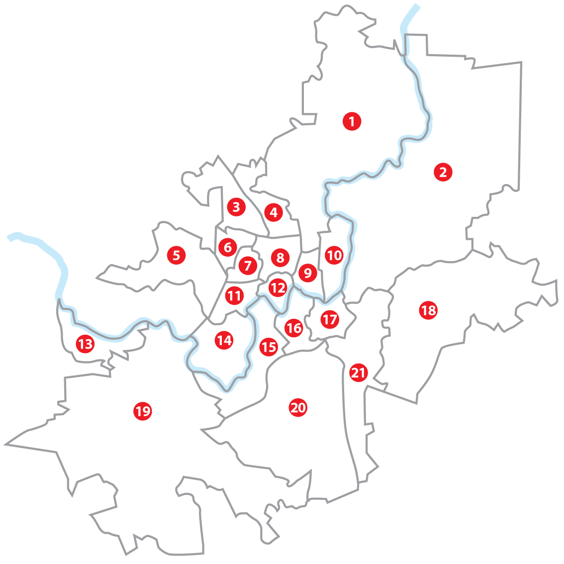 Map of Vilnius elderates